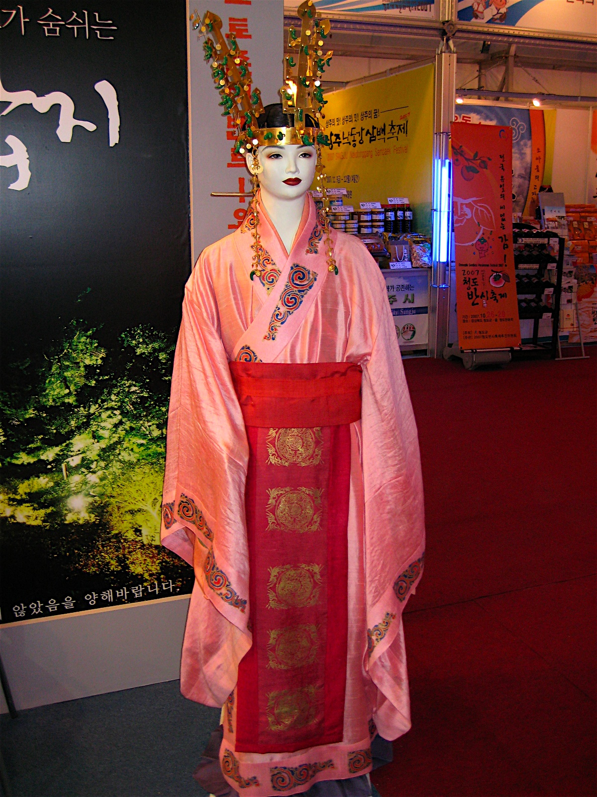 A scene of Gyeongju, Gyeongsangbuk-do, South Korea on 2007-10-04